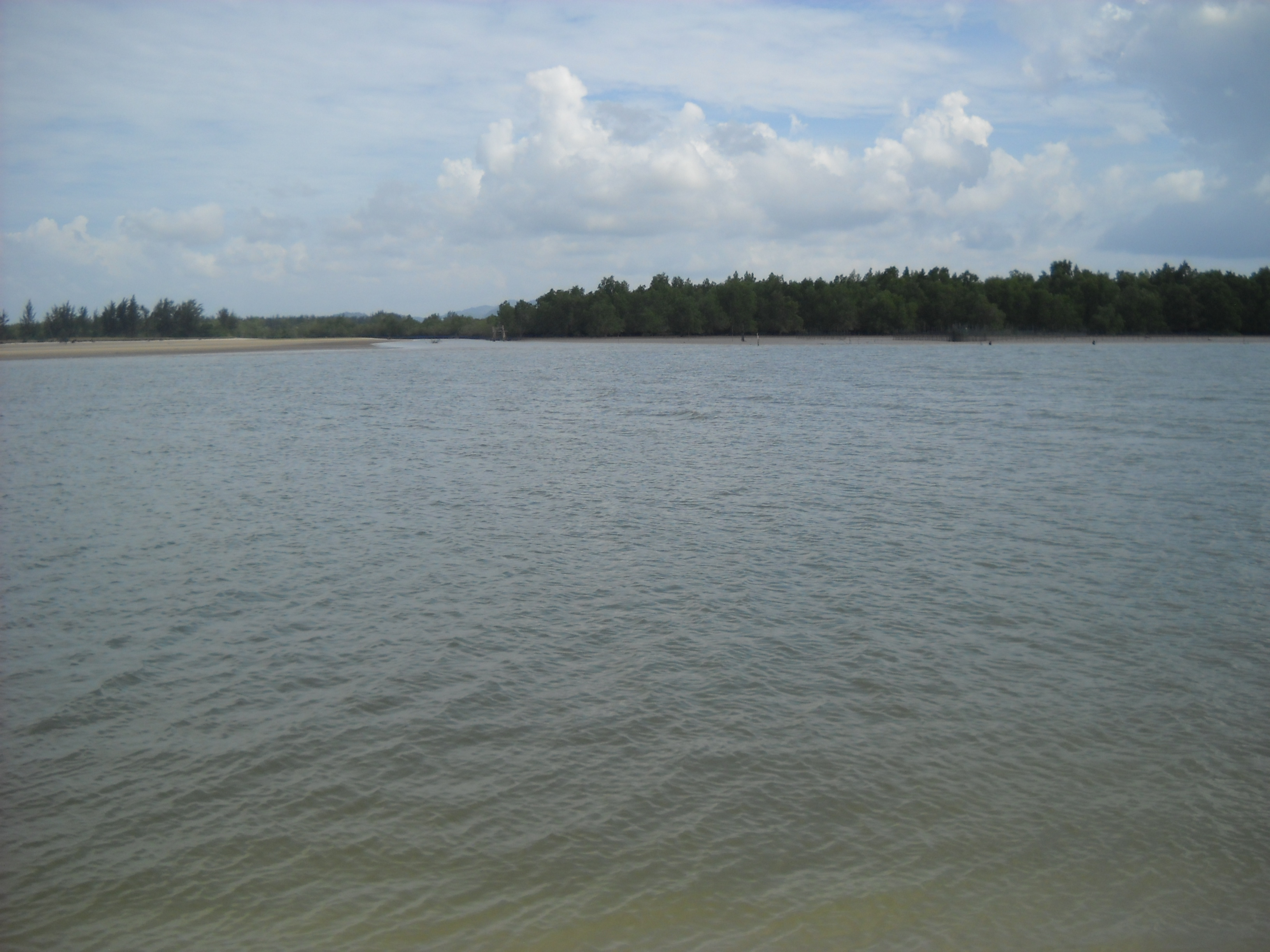 Pangkal Balam River estuary near Emas Bridge, Bangka Island.